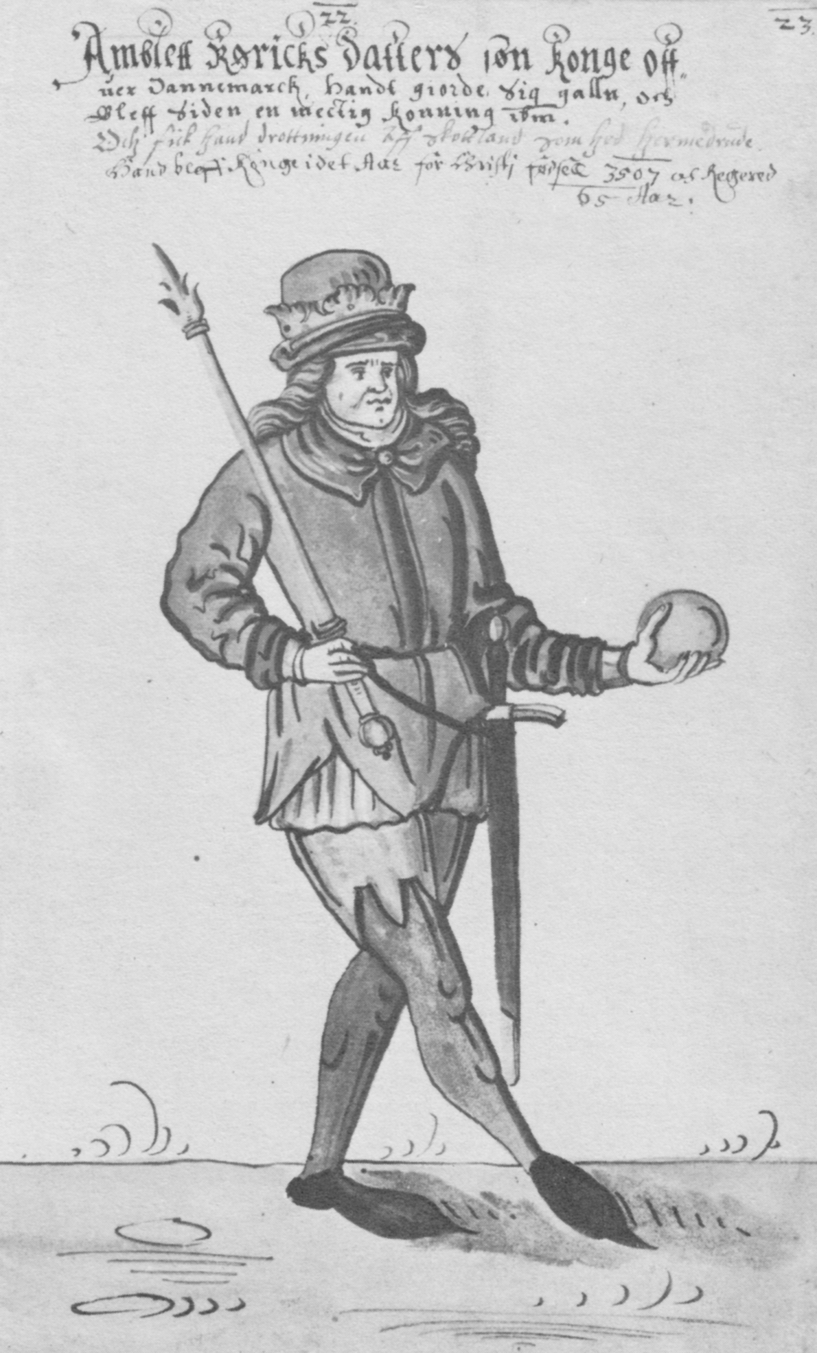 Depiction of the fictional character Amblett, on whom Shakespeare's Hamlet is based. From a 17th-century manuscript Icones Regum Daniae